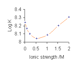 Ionic strength dependence of Cu glycine stability constant